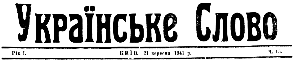 Logo of the Ukrainian-language newspaper «Українське Слово» (Ukrainian Word) which was first published in Kyiv in 1941 and then banned by the occupying Germans.